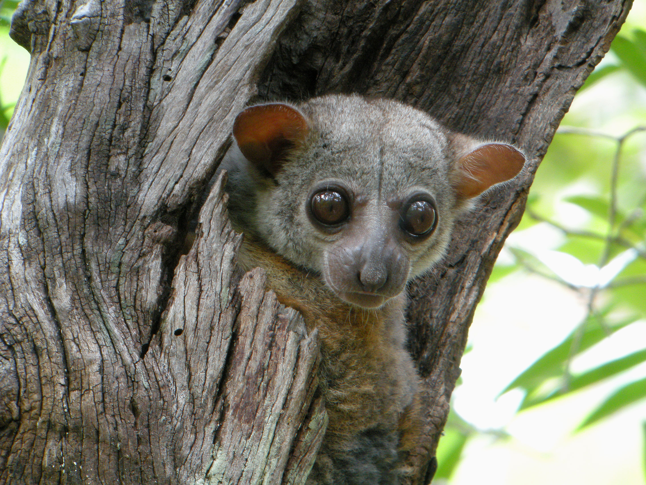 Milne-Edwards' Sportive Lemur, Ankarafantsika National Park, Madagascar